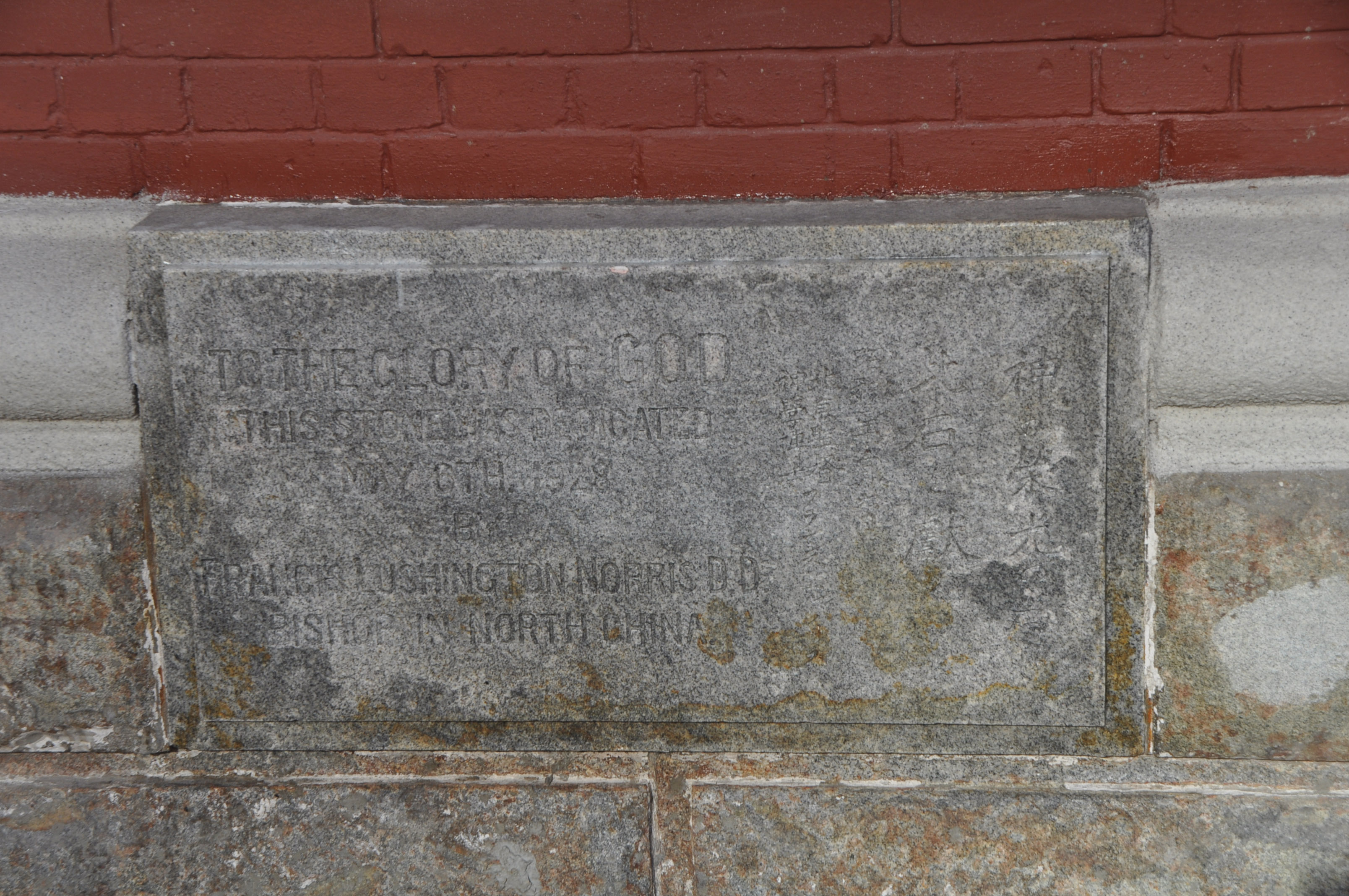 Yuguang Street Church's Corner Stone - Dalian, China